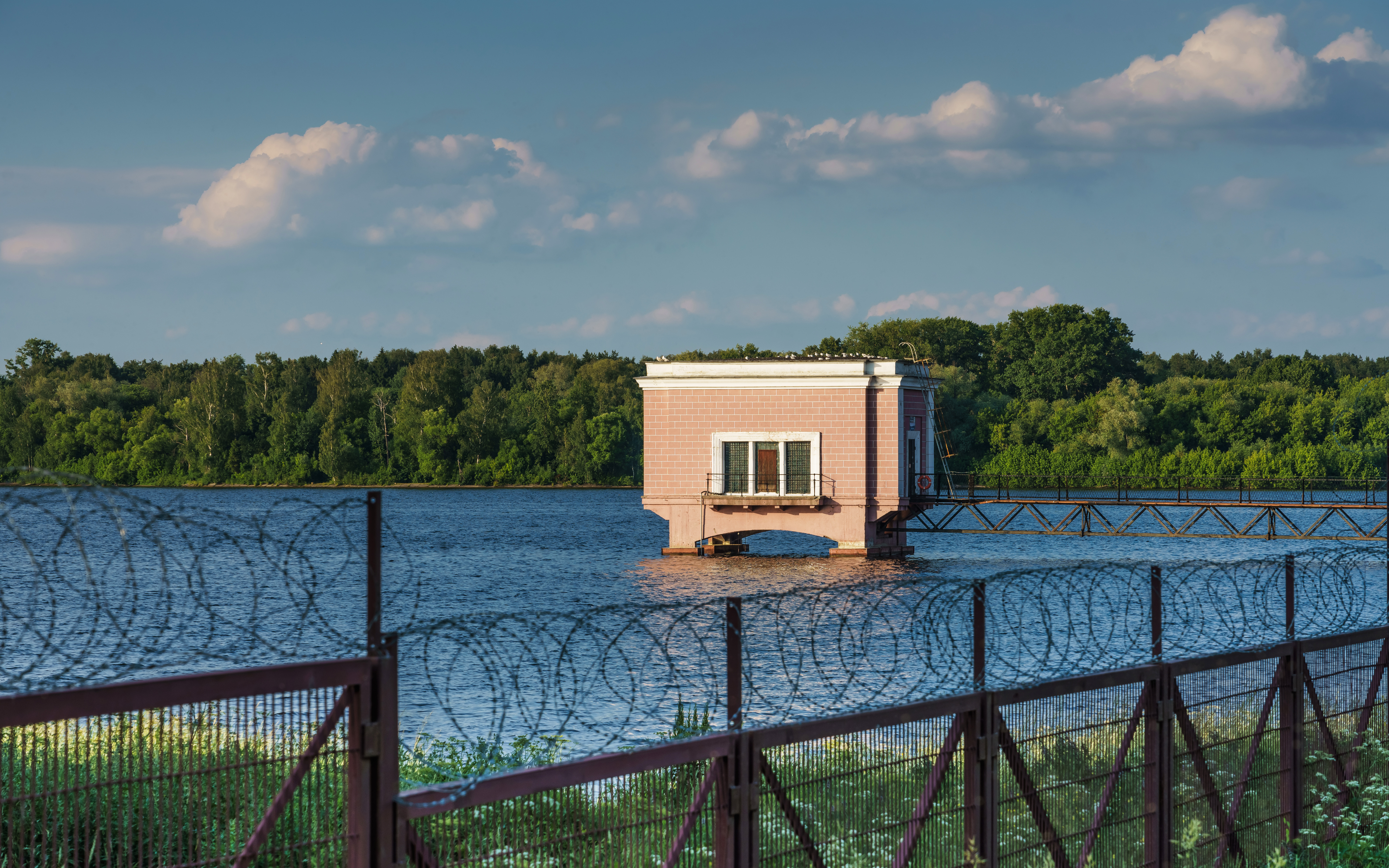 Akulovo pumphouse at Uchinskoe Reservoir near Pushkino, Moscow Oblast, Russia